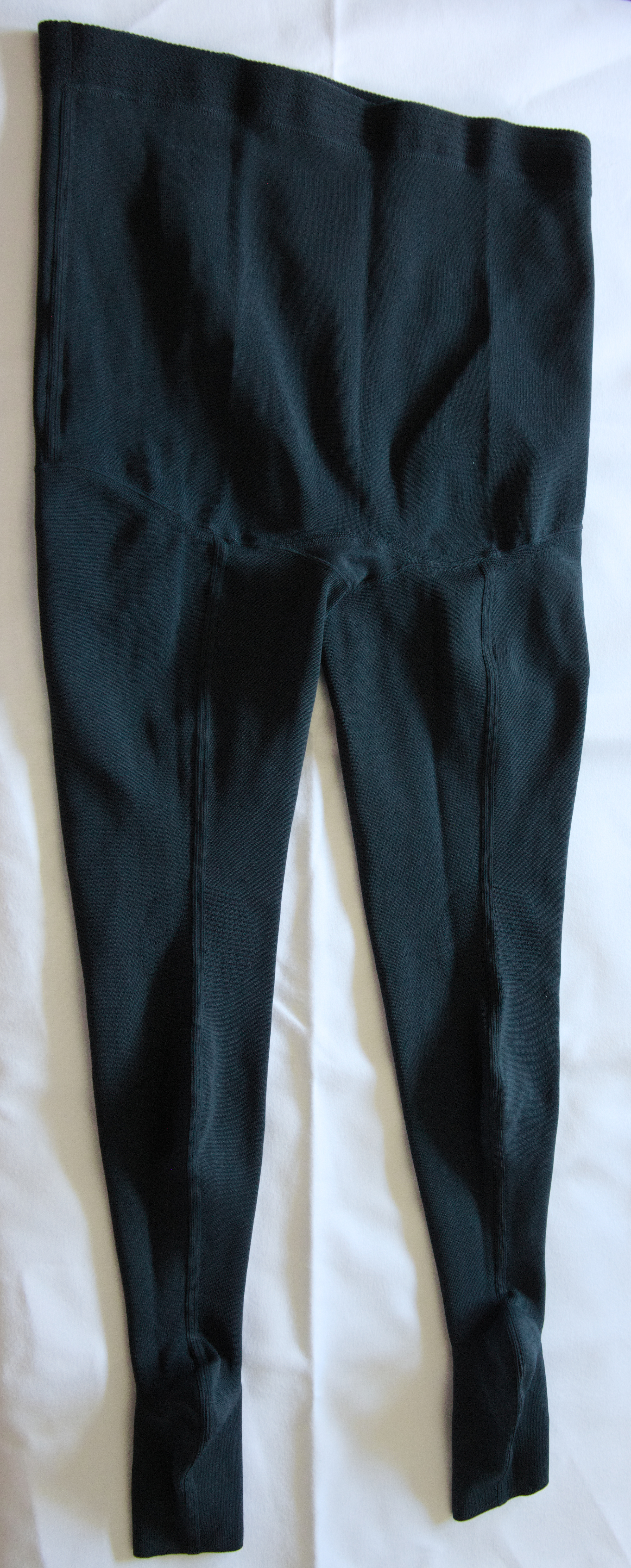 Flat knit compression pantyhose mediven 550 (ccl. III (34-46 mmHg), anthracite). Back with seam, functional elements for the popliteal fossae. Open toe. Attached waist band.